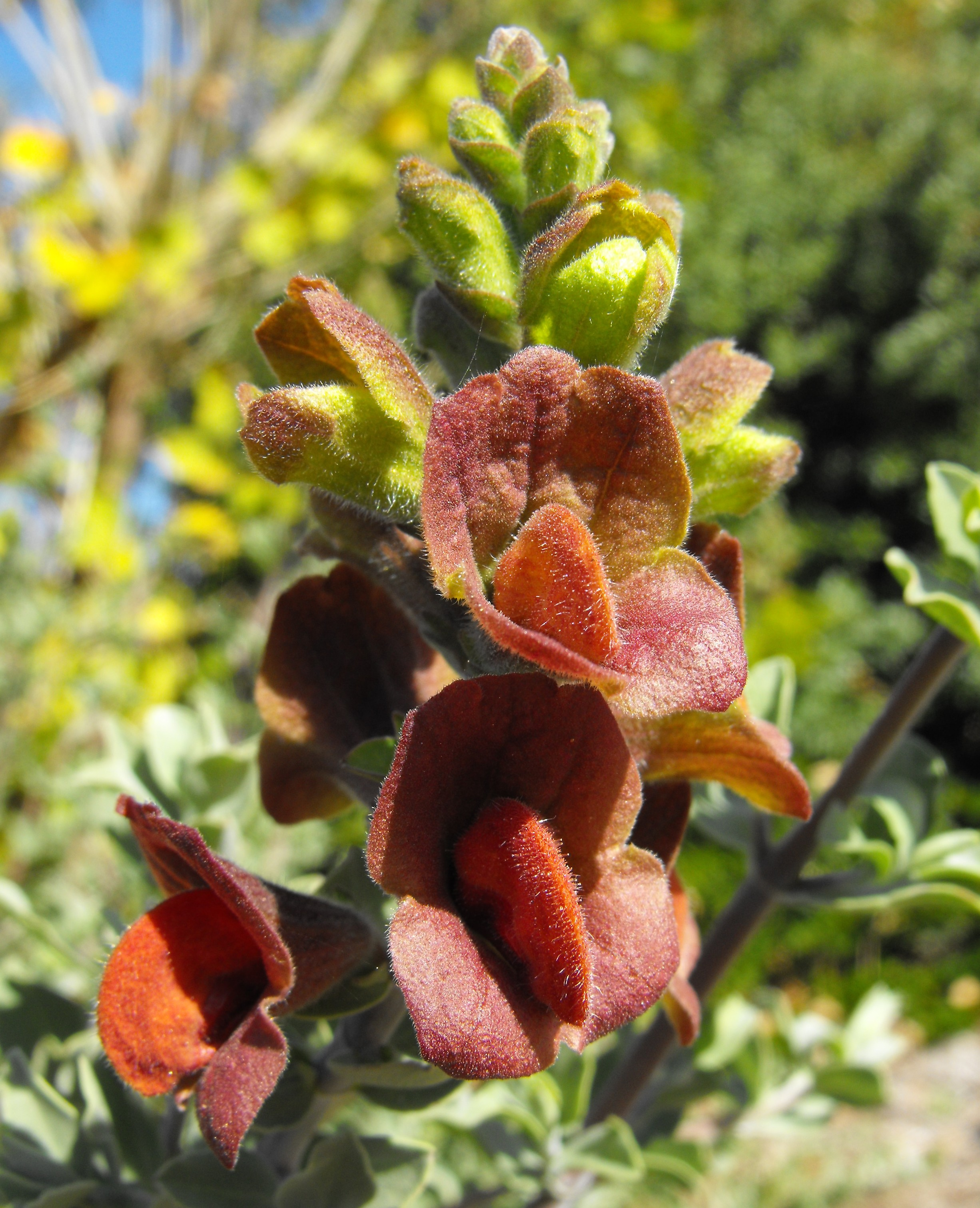 Salvia aurea at the Water Conservation Garden at Cuyamaca College, El Cajon, California, USA. Identified by sign.